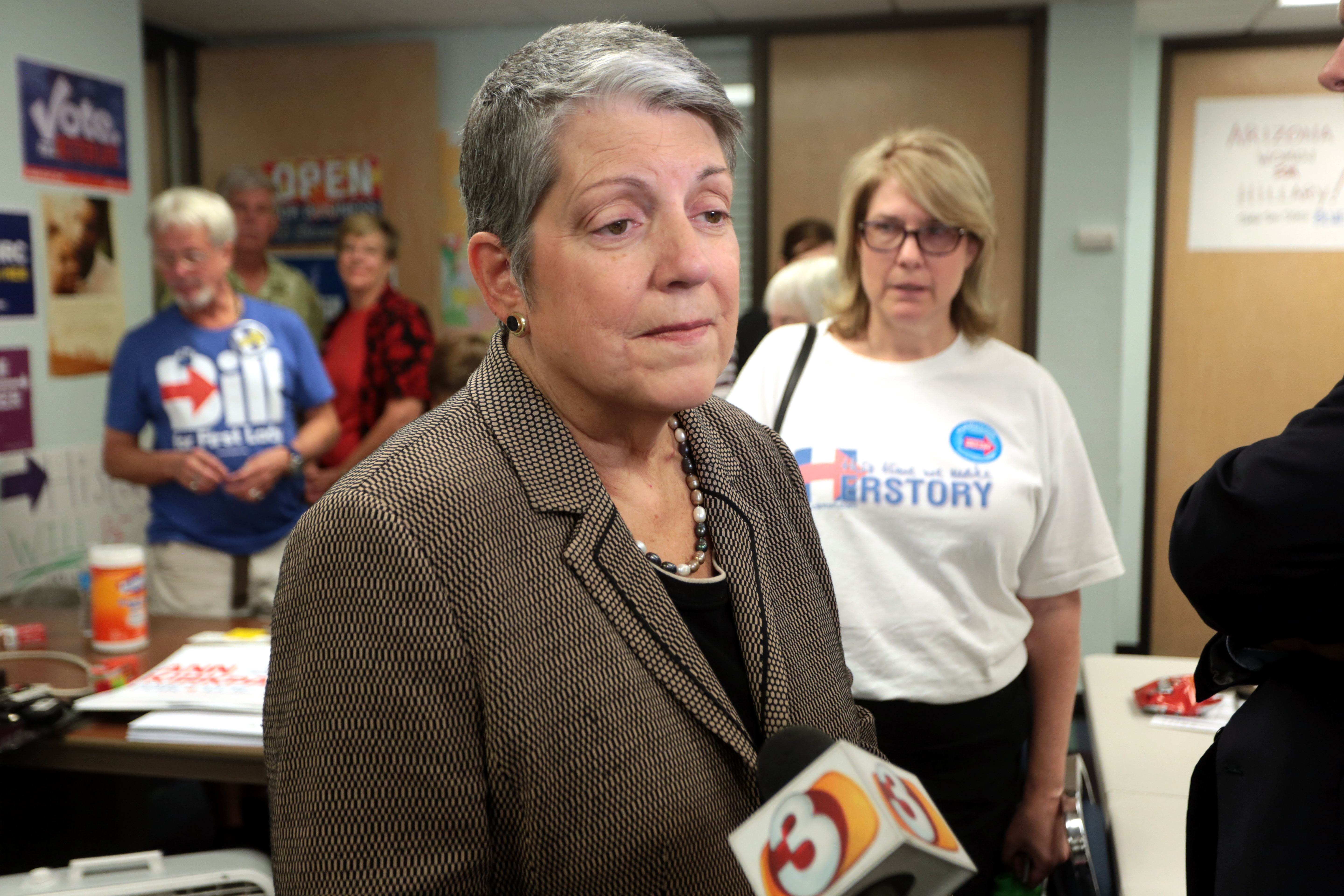 Former Secretary of Homeland Security and Governor Janet Napolitano speaking with the media at a get out the vote rally at the Arizona Democratic Party headquarters in Phoenix, Arizona.